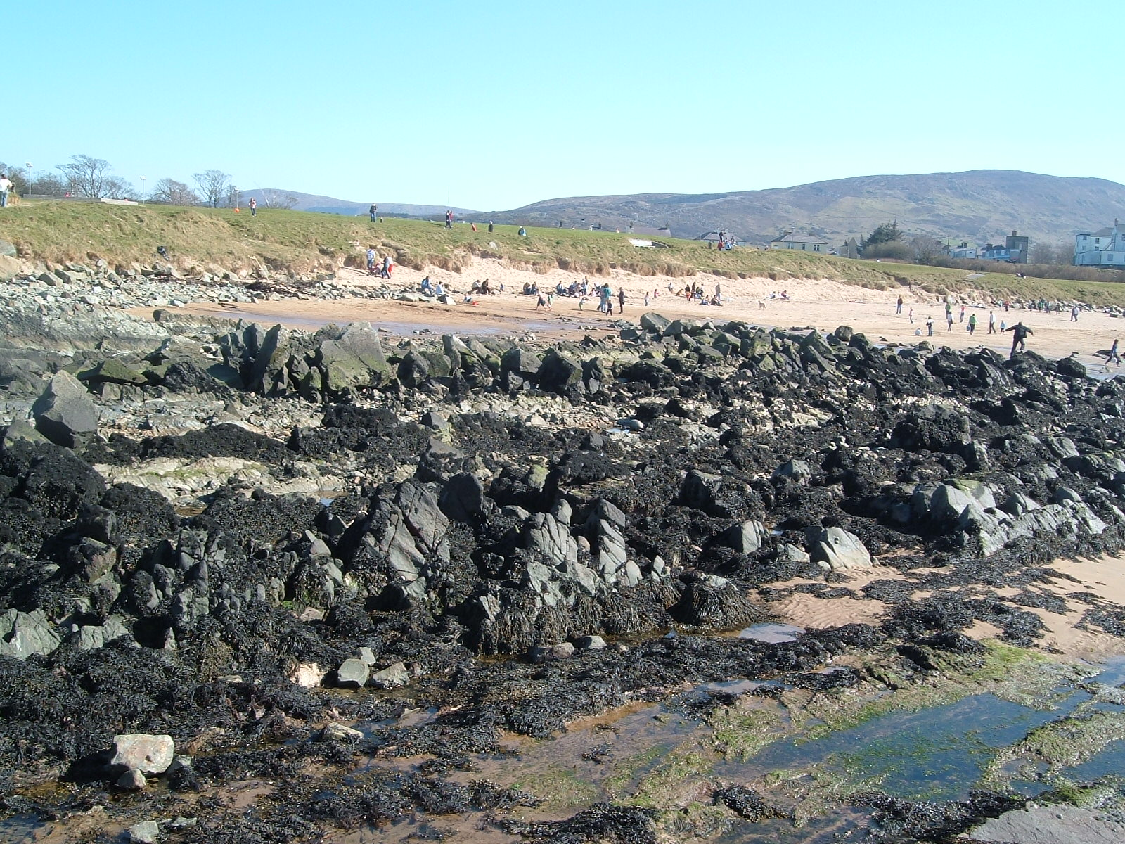 buncrana beach